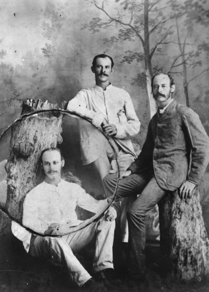 Stuart Russell Family. Studio portrait of three men from the Stuart Russell family. It seems an old picture because the subjects seat might be because long time exposure was needed.